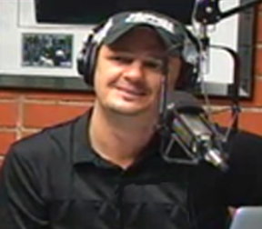 Kenny Hassan, host of World Football Daily.